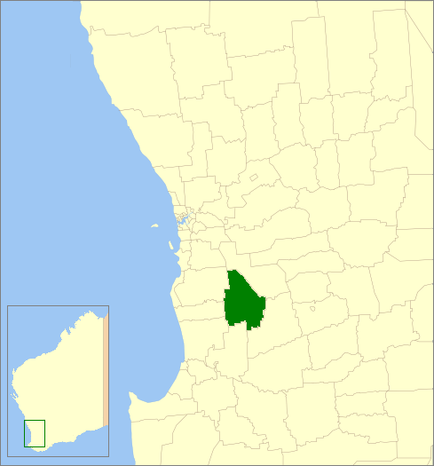 Description=Location of the Local Government Area in Western Australia